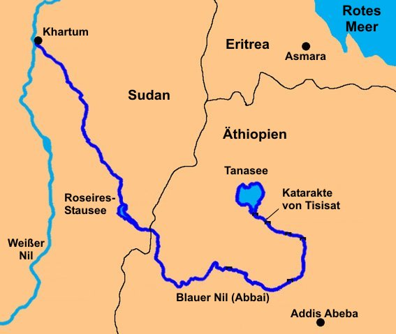 Map of the Blue Nile, from (deleted)